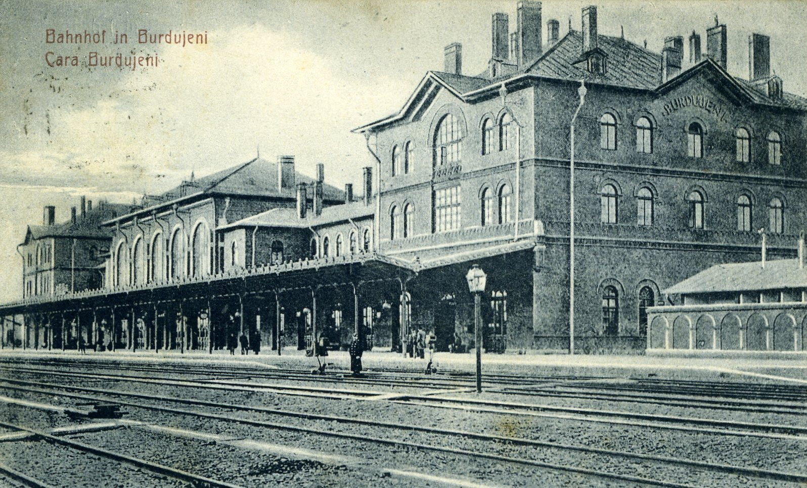 Burdujeni railway station, Romania Bukowina [Suceava]